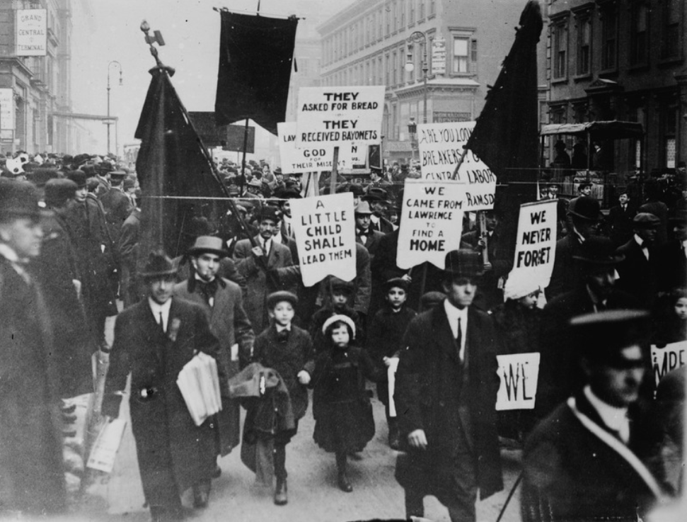 Lawrence textile strikers and sympathetic workers parading in New York City during the Lawrence textile strike of 1912.